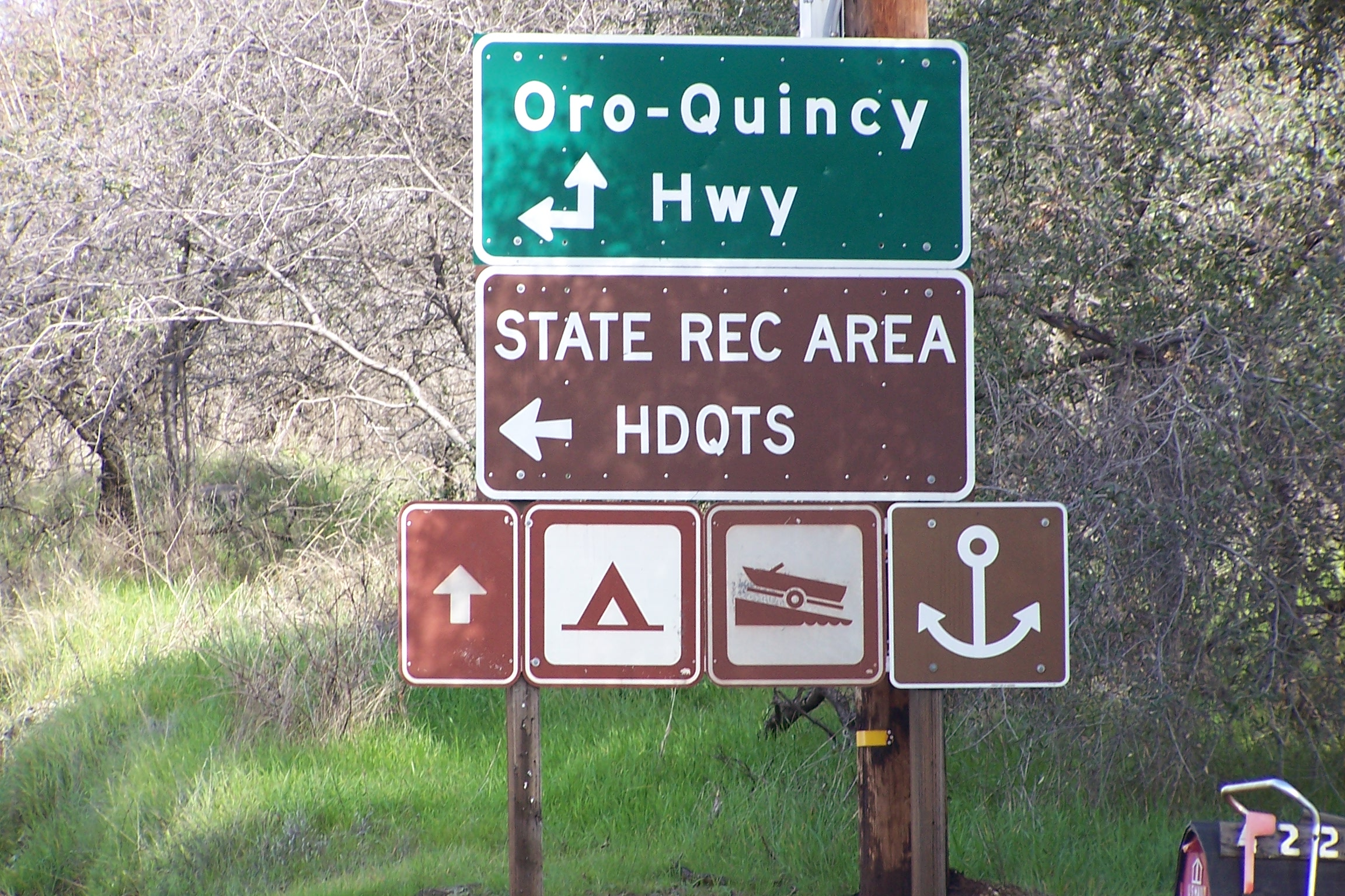 Personal Photo